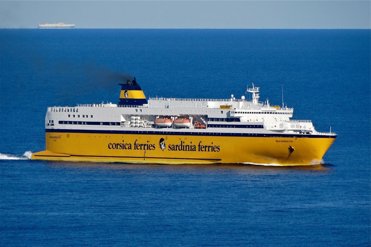 MEGA EXPRESS FIVE - CORSICA SARDINIA ELBA FERRIES